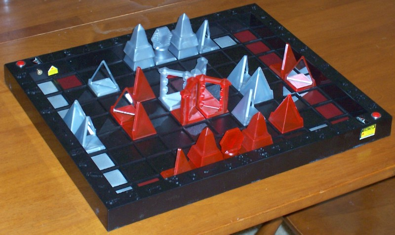 image of Khet, the strategy board game